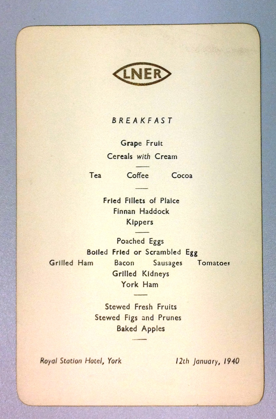 National Railway Museum LNER Royal Station Hotel York Menu Breakfast 12th January 1940. The scan and upload have been made with the permission of Tim Procter Archivist at the National Railway Museum York.